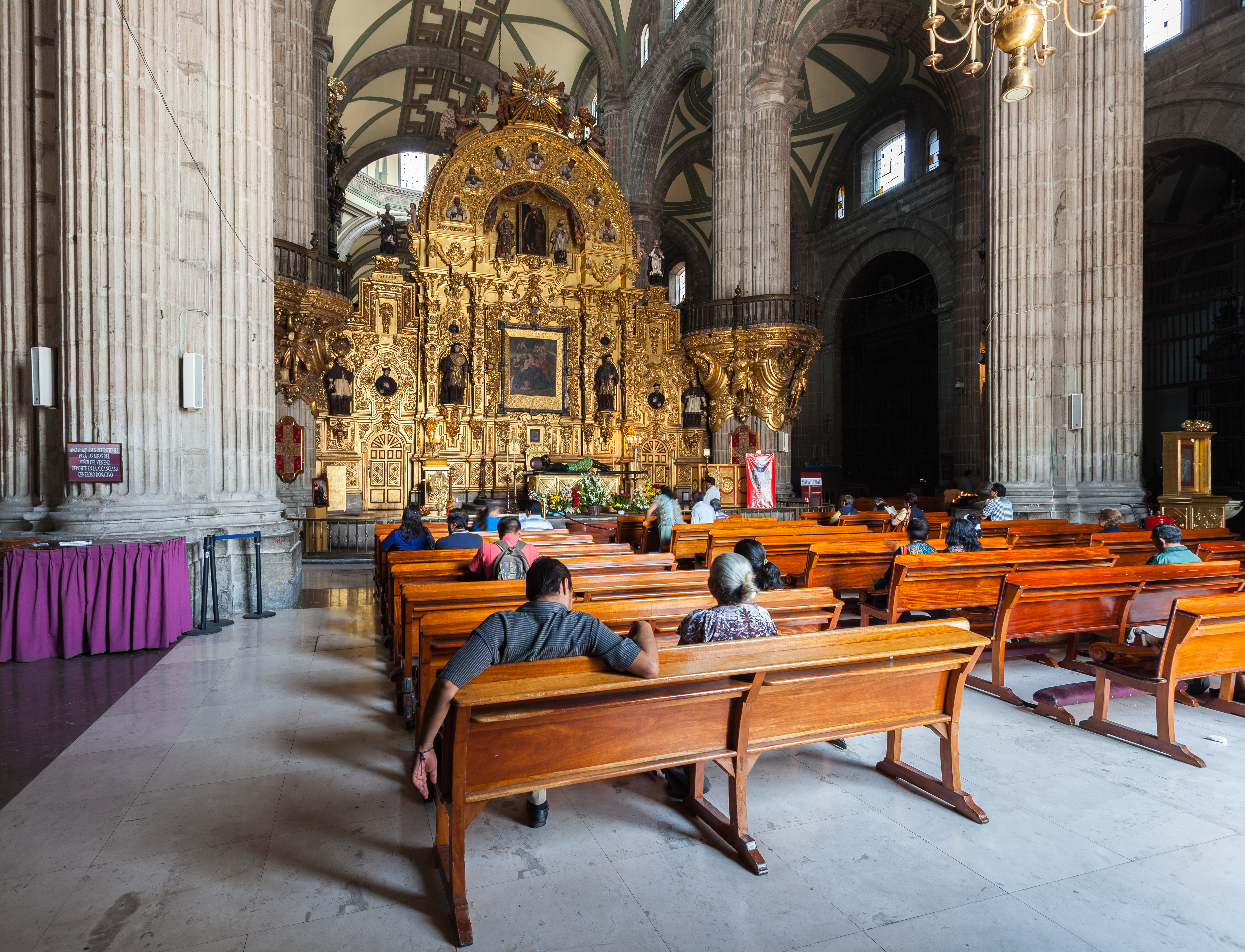 Metropolitan Cathedral, Mexico City, México